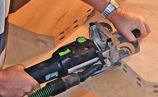 Domino jointer system German tool manufacturer Festool